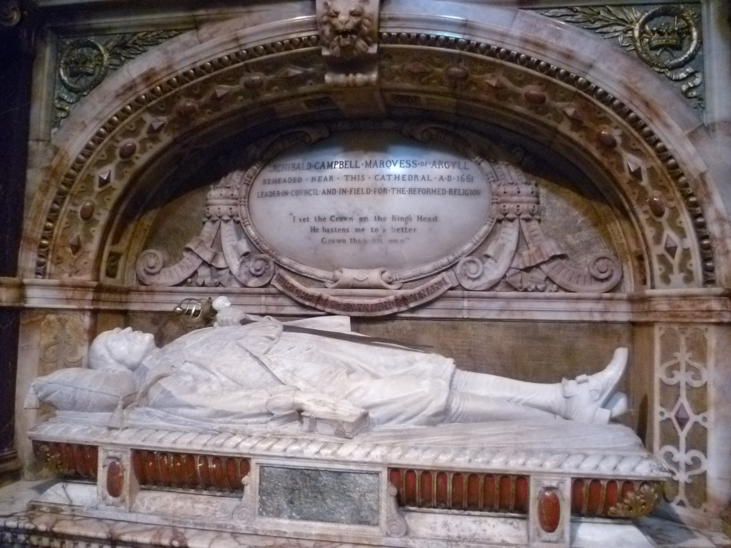 Tomb of Archibald Campbell, 1st Marquis of Argyll